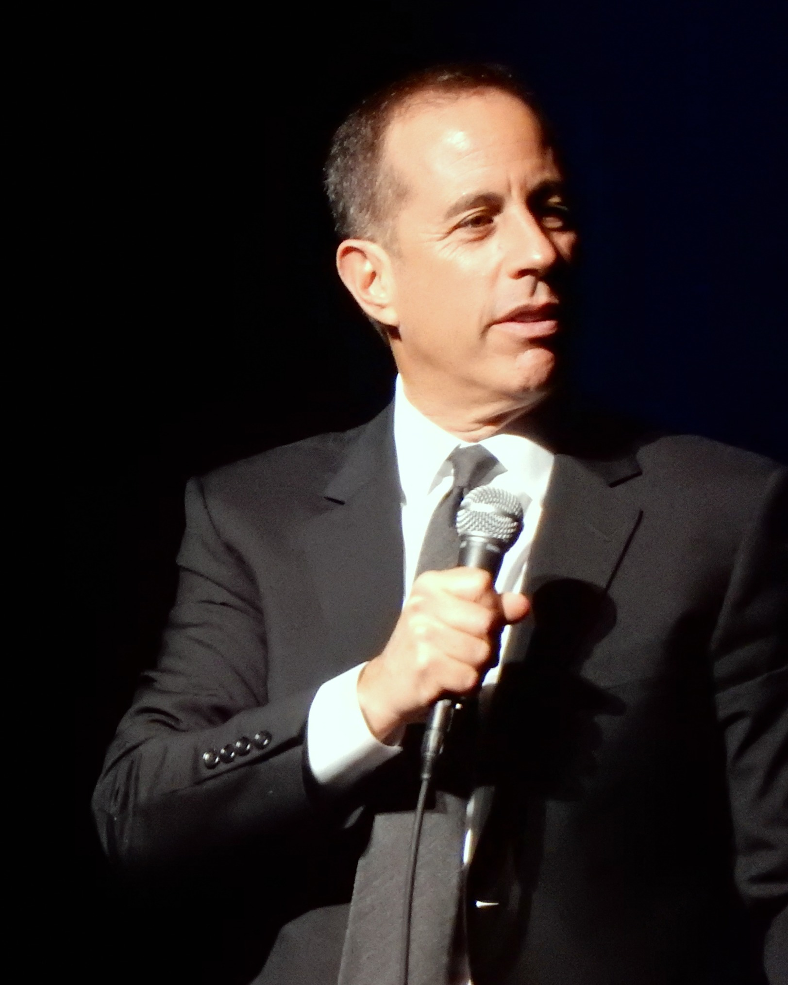 Jerry Seinfeld, 2 December 2016